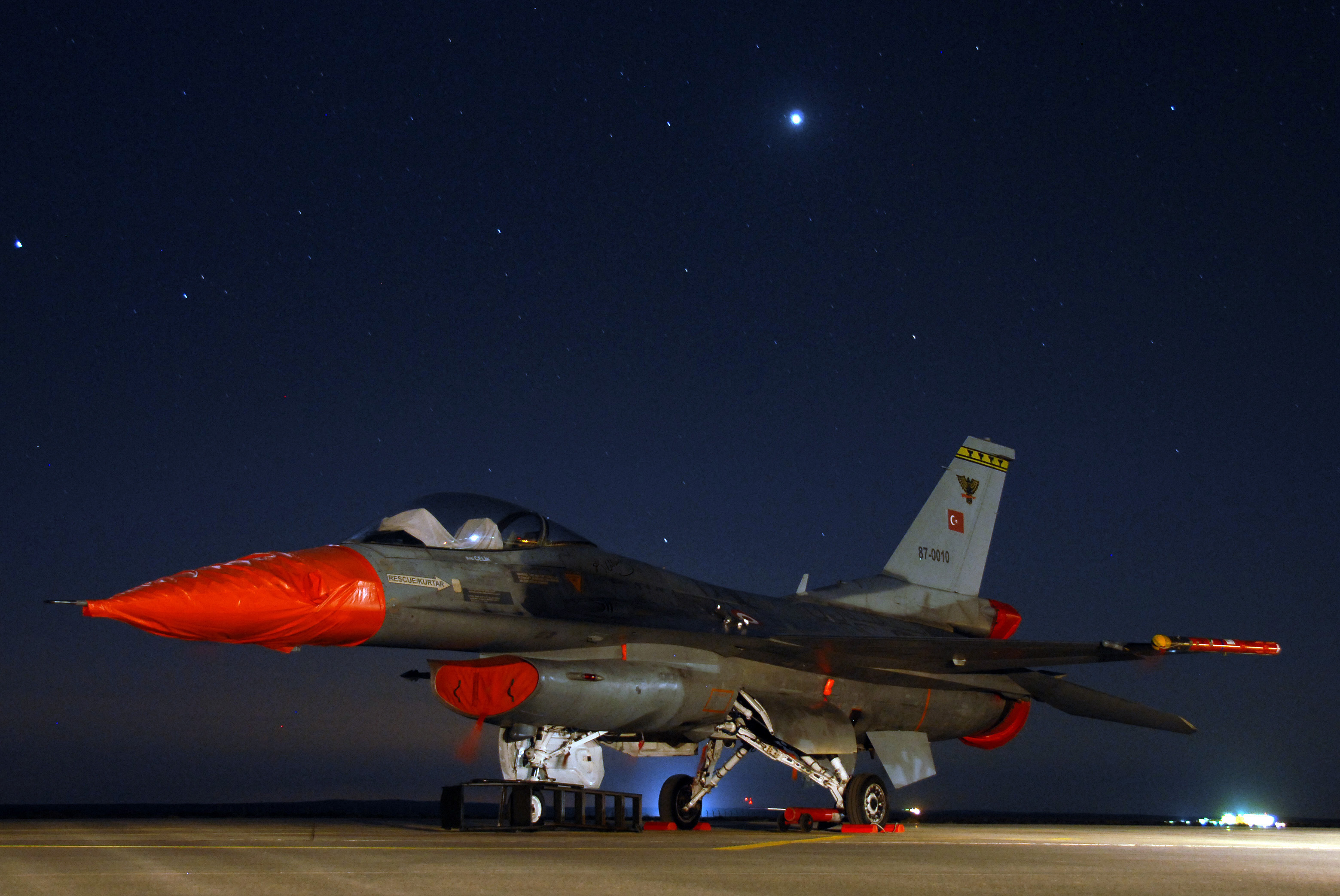 An F-16 Fighting Falcon aircraft from the Turkish air force rests in the night at Muwaffaq Salti Air Base, Jordan, May 23, 2007. F-16s from four countries are in Jordan this week to compete in the Falcon Air Meet (FAM), which is an annual training opportunity hosted in Jordan for pilots from each country to fly and operate together. Participating in the 2007 FAM are air forces from Jordan, Turkey, Belgium, and the United States.